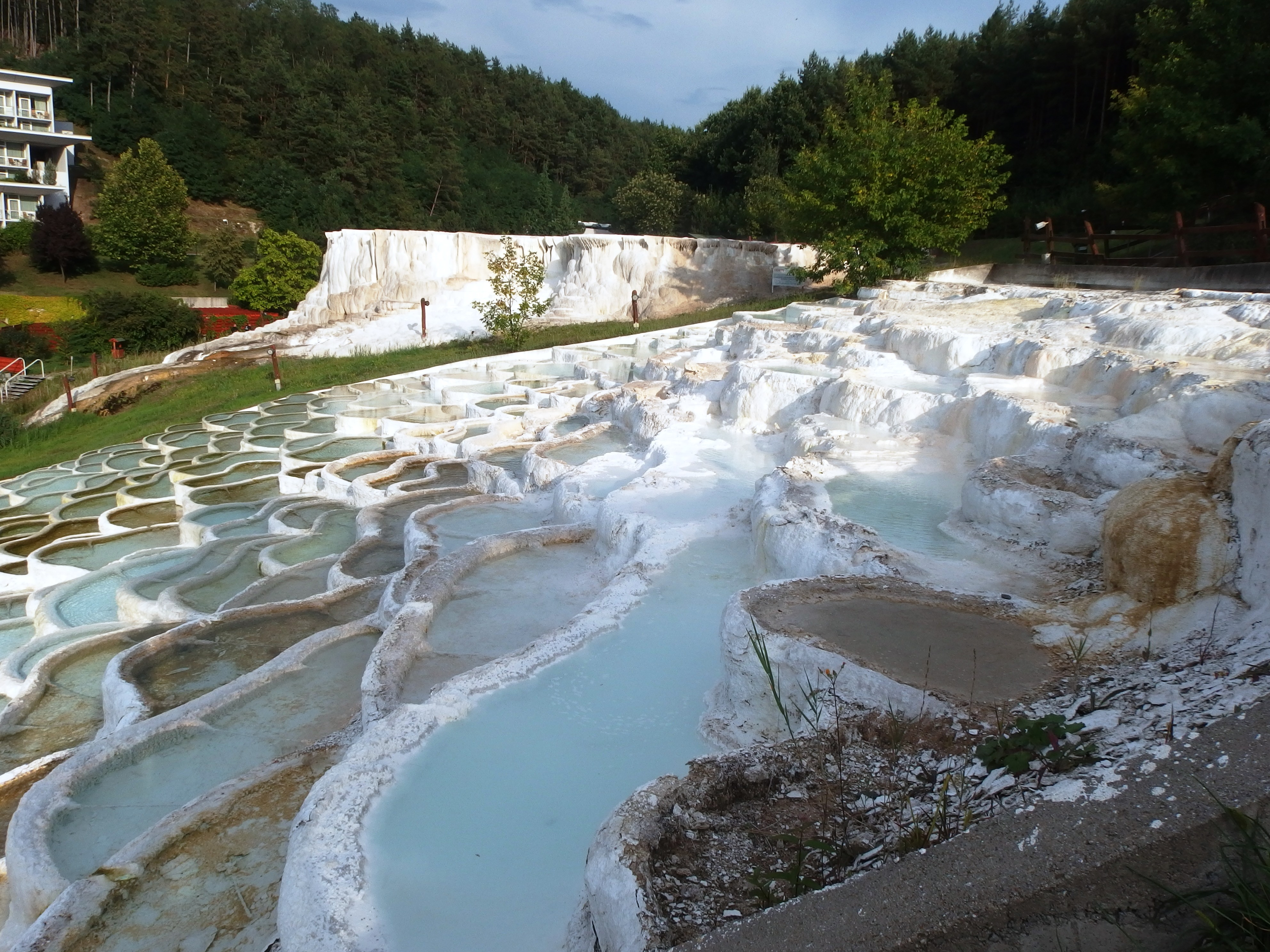 Egerszalók, Hungary.